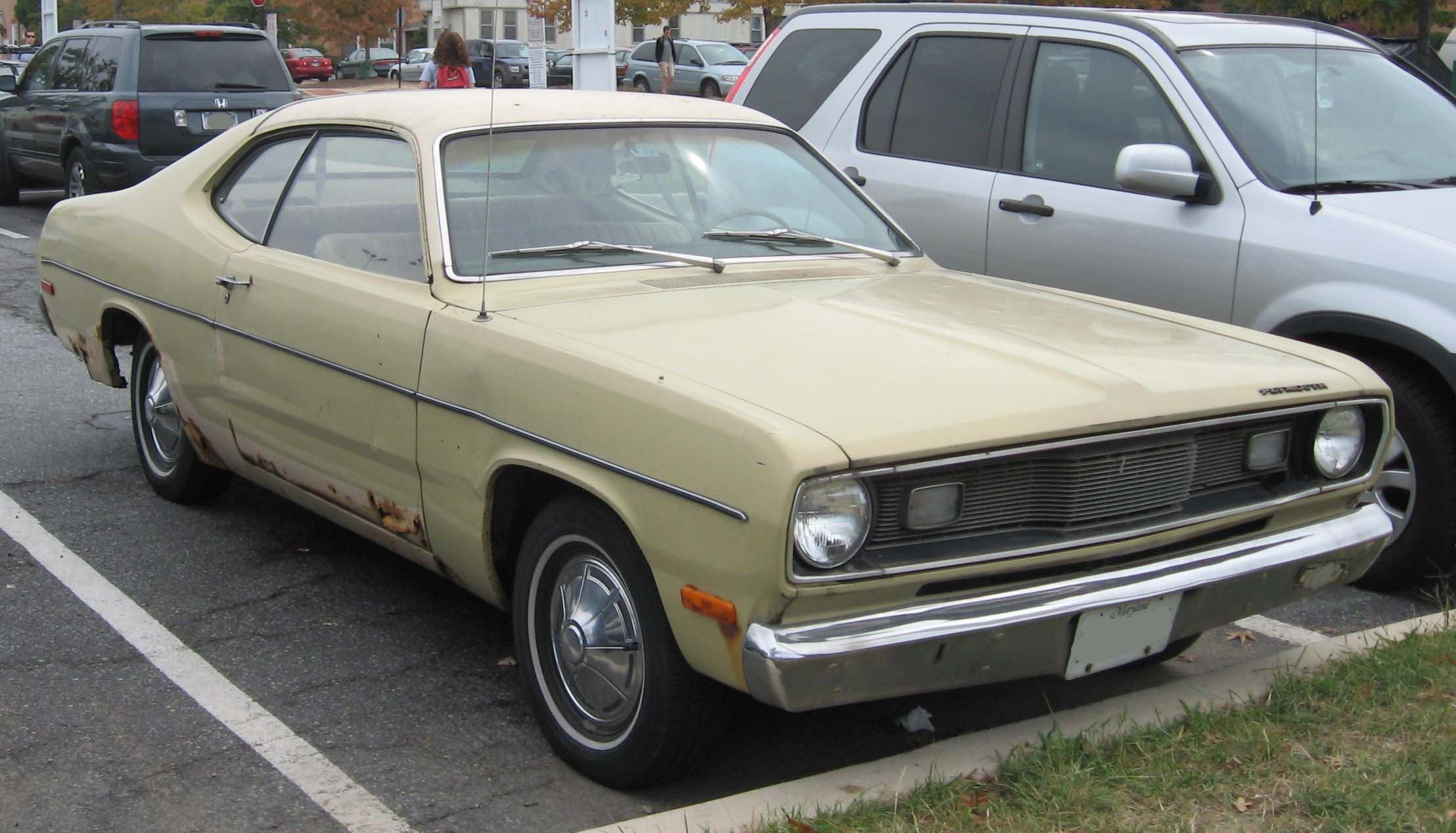 1972 Plymouth Duster photographed in College Park, Maryland, USA.